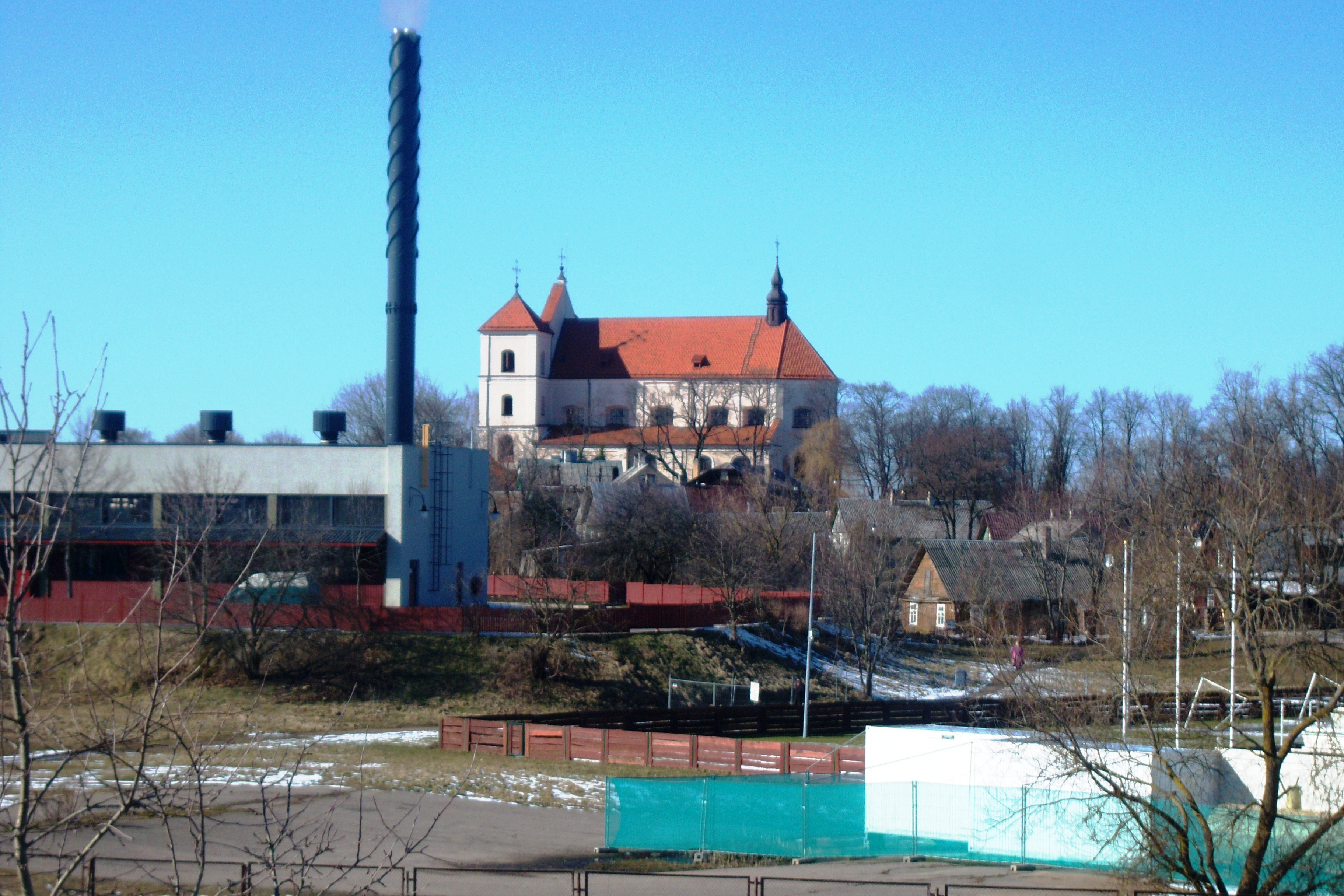 Chimney and church, Trakai, Lithuania